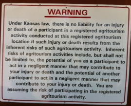 Sign disclaiming legal responsibility at a Kansas Agrotourism business